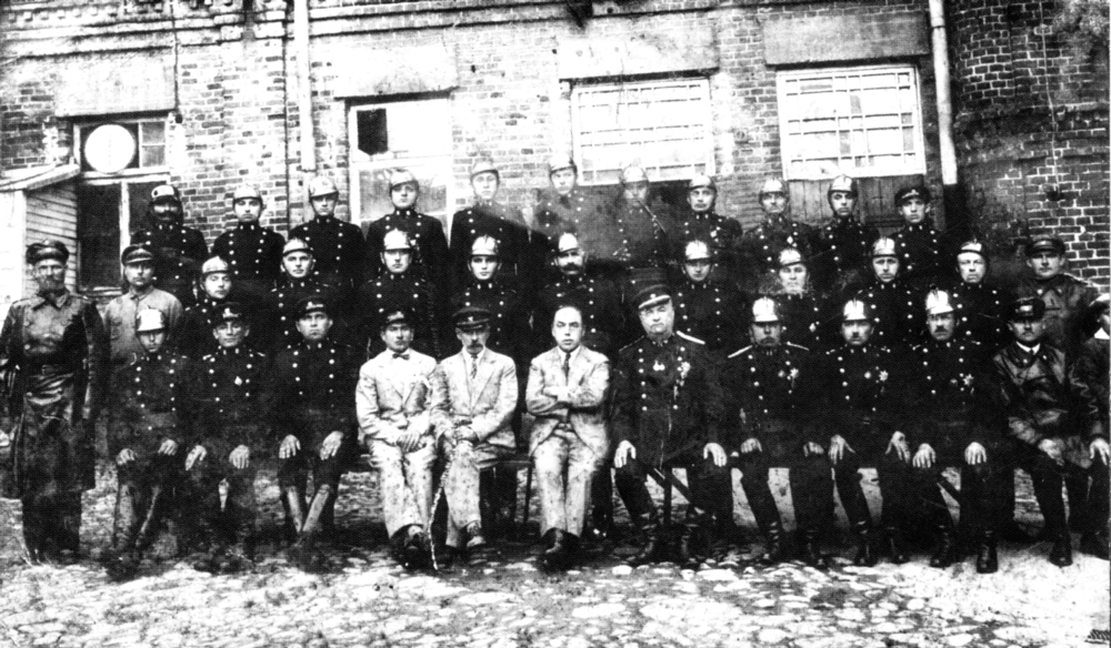 Firemans of Frenkelis tannery in Šiauliai, about 1924. Jokūbas Frenkelis in center